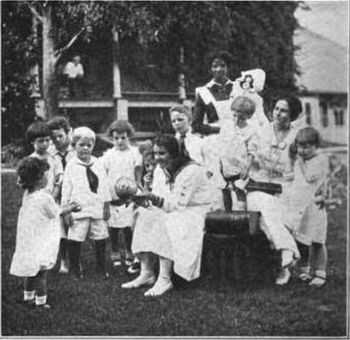 "The American Club Woman", December 1916, page 84, Natural Education, by Winifred Sackville Stoner